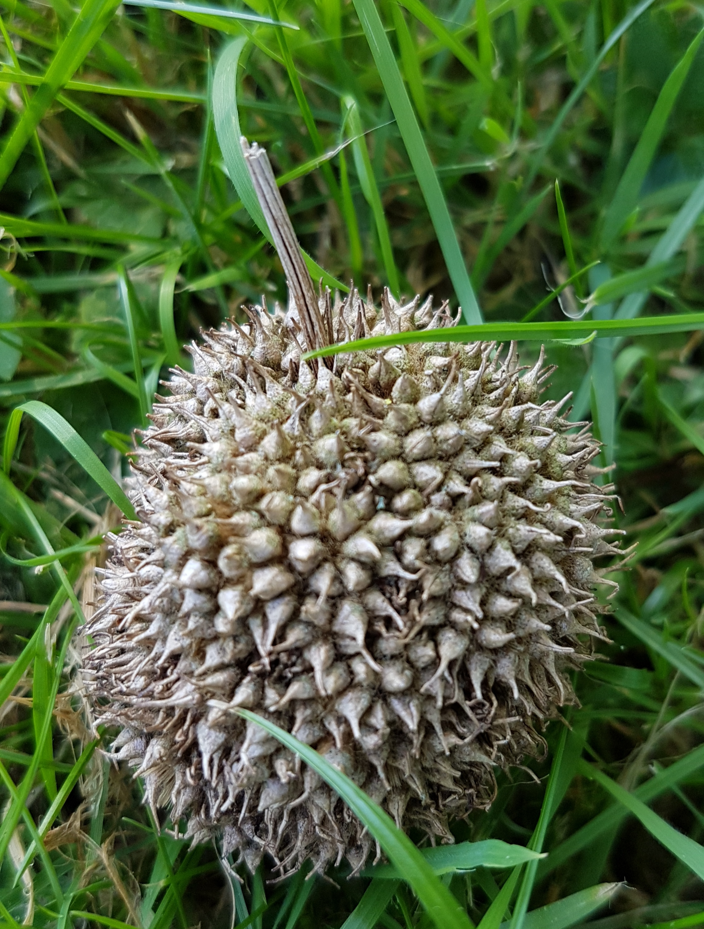 Close up of a ripe plane tree fruit on the ground, under the tree.